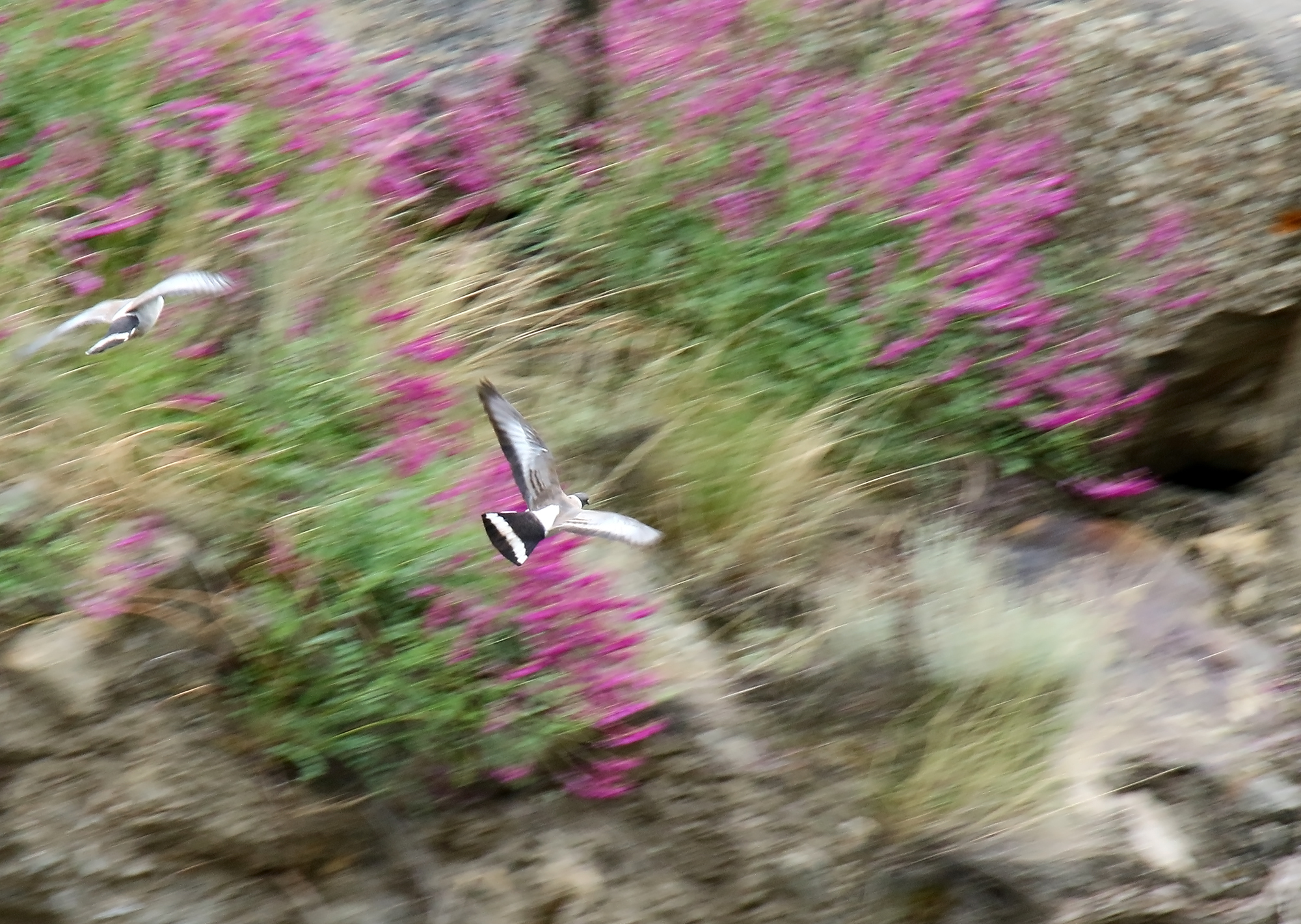 Snow Pigeon (Columba leuconota) captured at Shispare Ther, Hunza, Gilgit-Baltistan, Pakistan with Canon EOS 7D Mark II